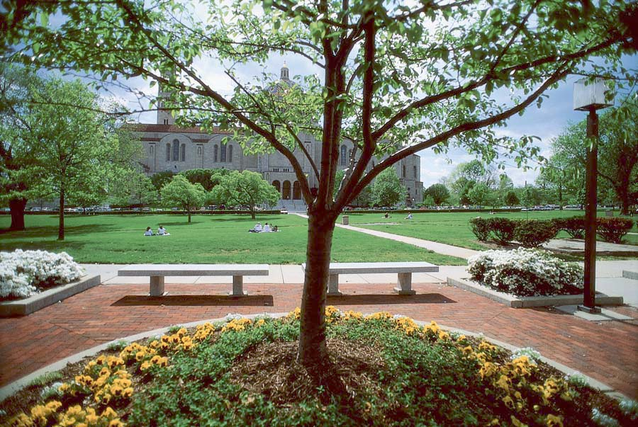 The CUA Mall, with the National Shrine in the background